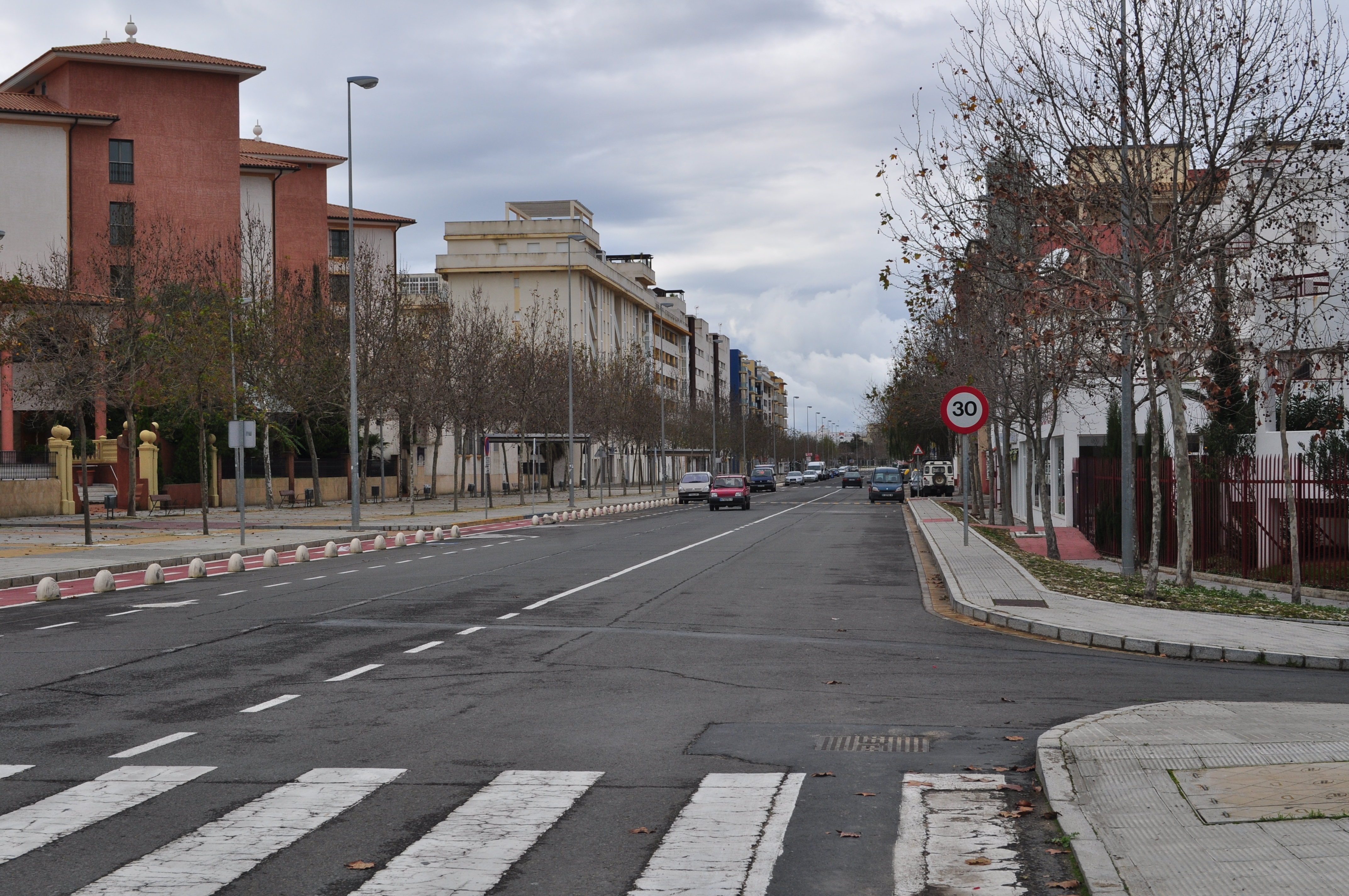 Costa de la Luz (Spain). Parque Av. at Isla Cristina. West view.